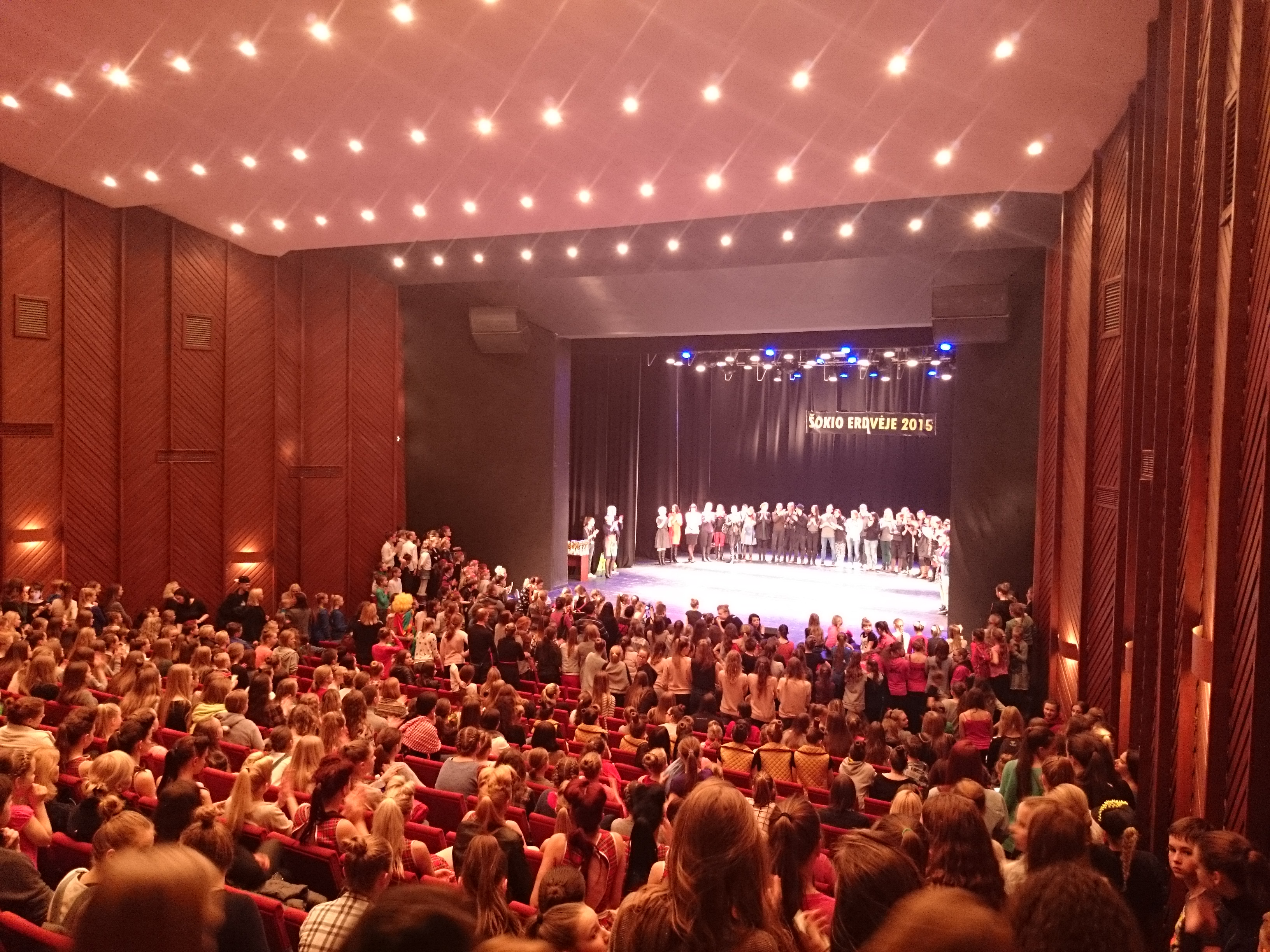 Girstutis